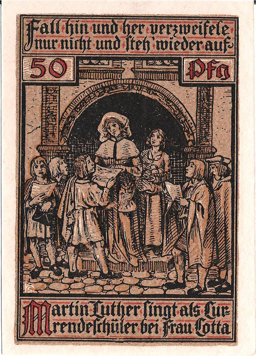 local emergency money, Eisenach 1921